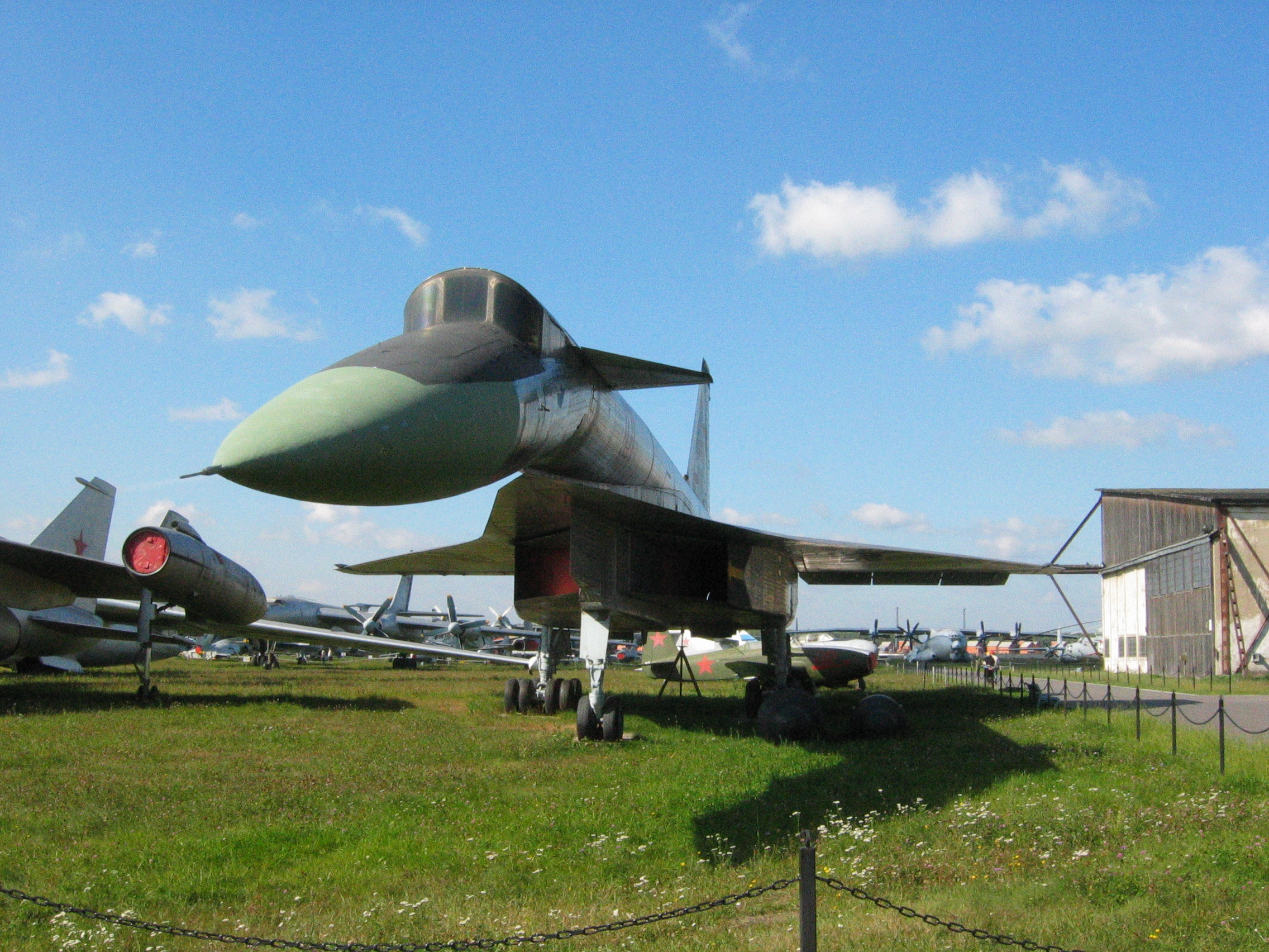 Sukhoi T-4 Strike / Reconnaissance aircraft This is the 101 model, first model to fly. Photo taken at the museum of aviation in Monino, Russia.